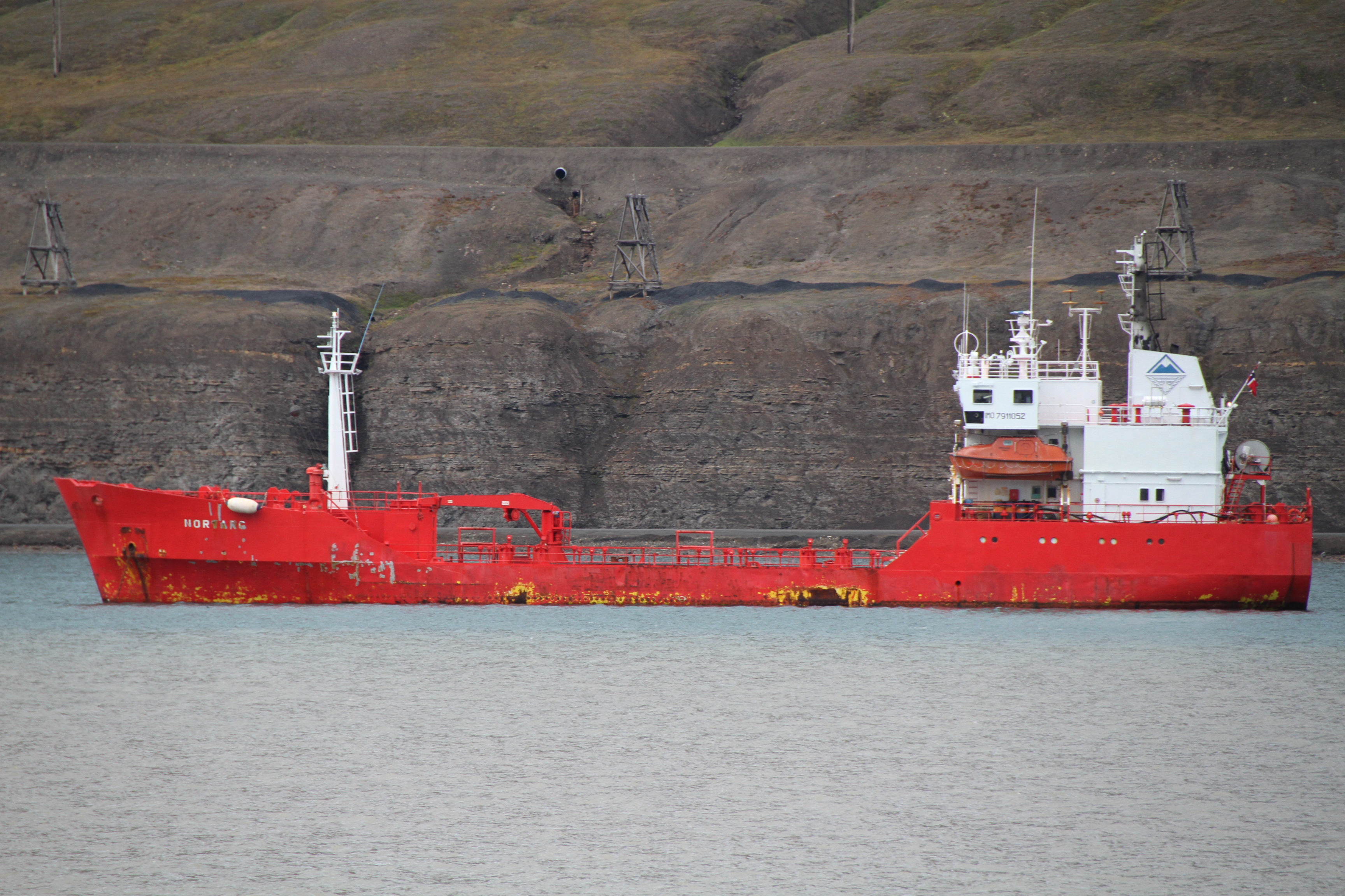 M/T "Norvarg", a norwegian supply and freight special ship at anchor in Adventfjorden, by Longyearbyen, Svalbard. Registered and operated by the company Marine Supply AS.